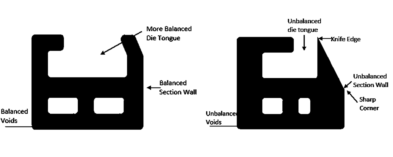 This Picture shows an exaple of Good and Bad Practice while designing the cross section in Extrusion